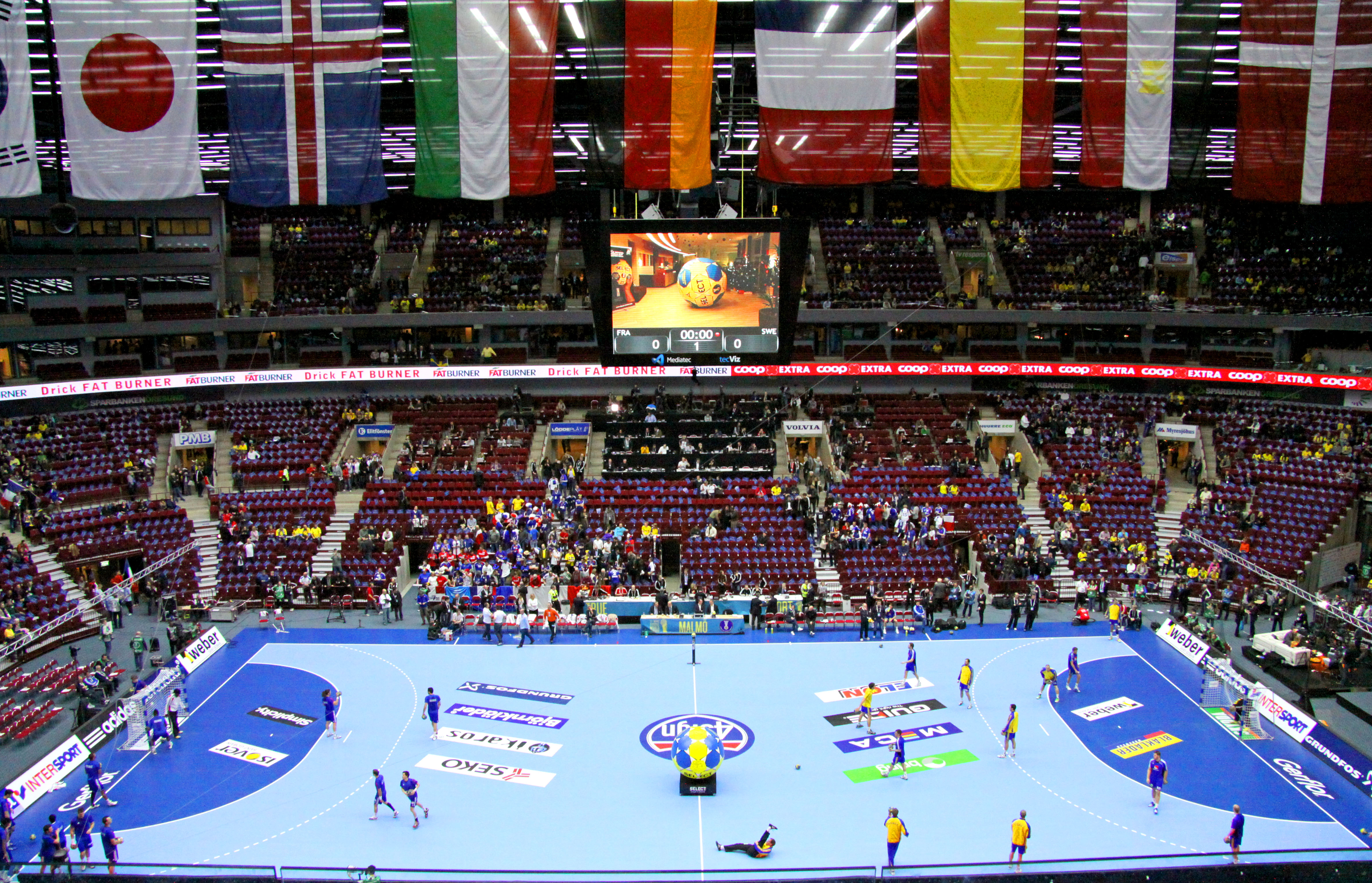 Malmö Arena. Semi-final between Sweden and France.